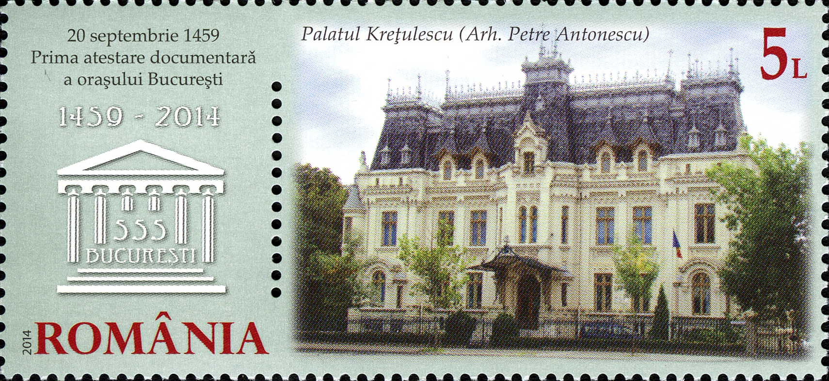 Stamps of Romania, 2014